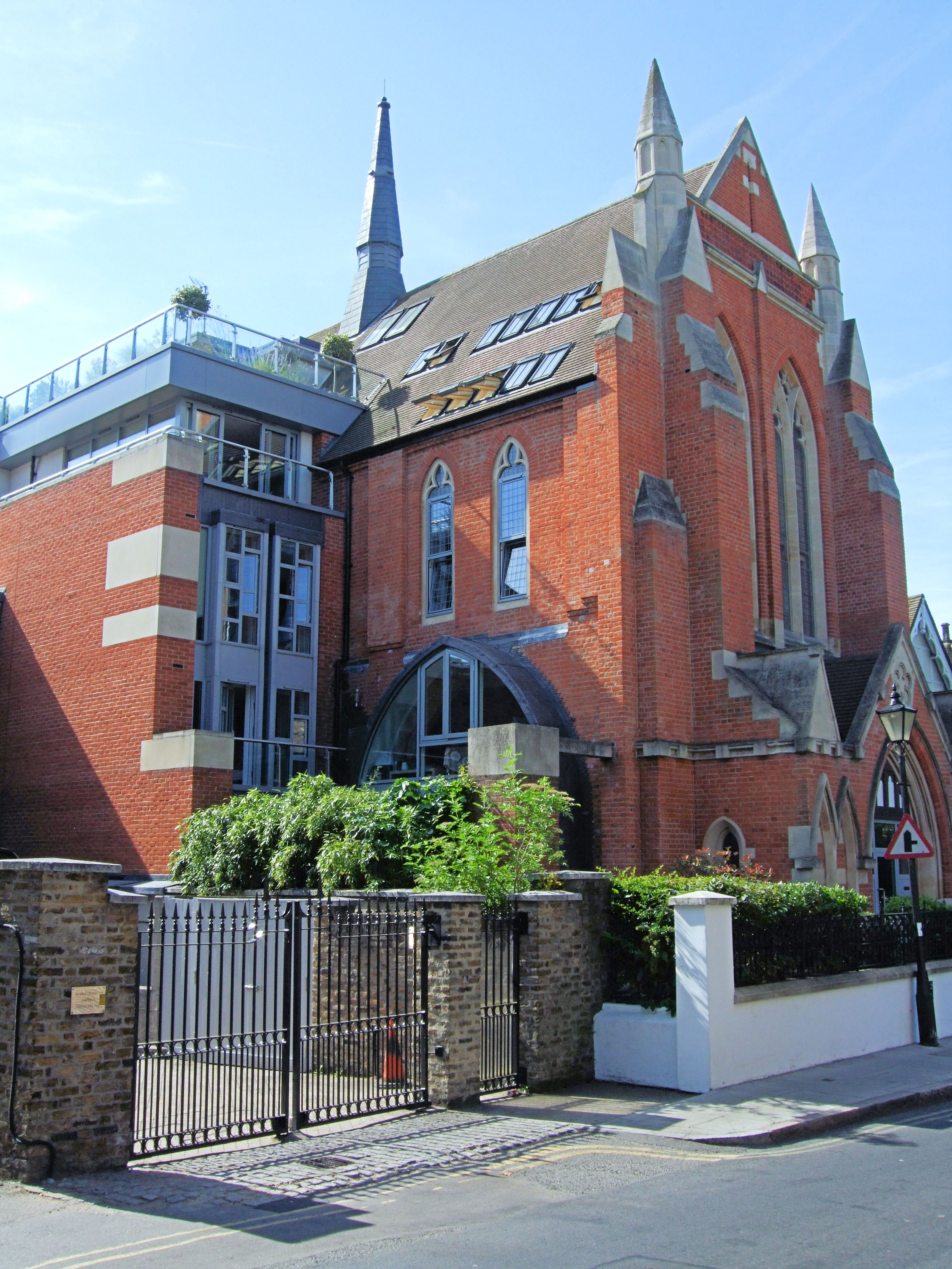 Former church converted into flats, Little Green, Richmond-upon-Thames, London TW9